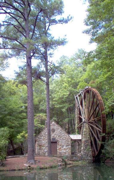 Old Mill at Berry College in Floyd County, Georgia